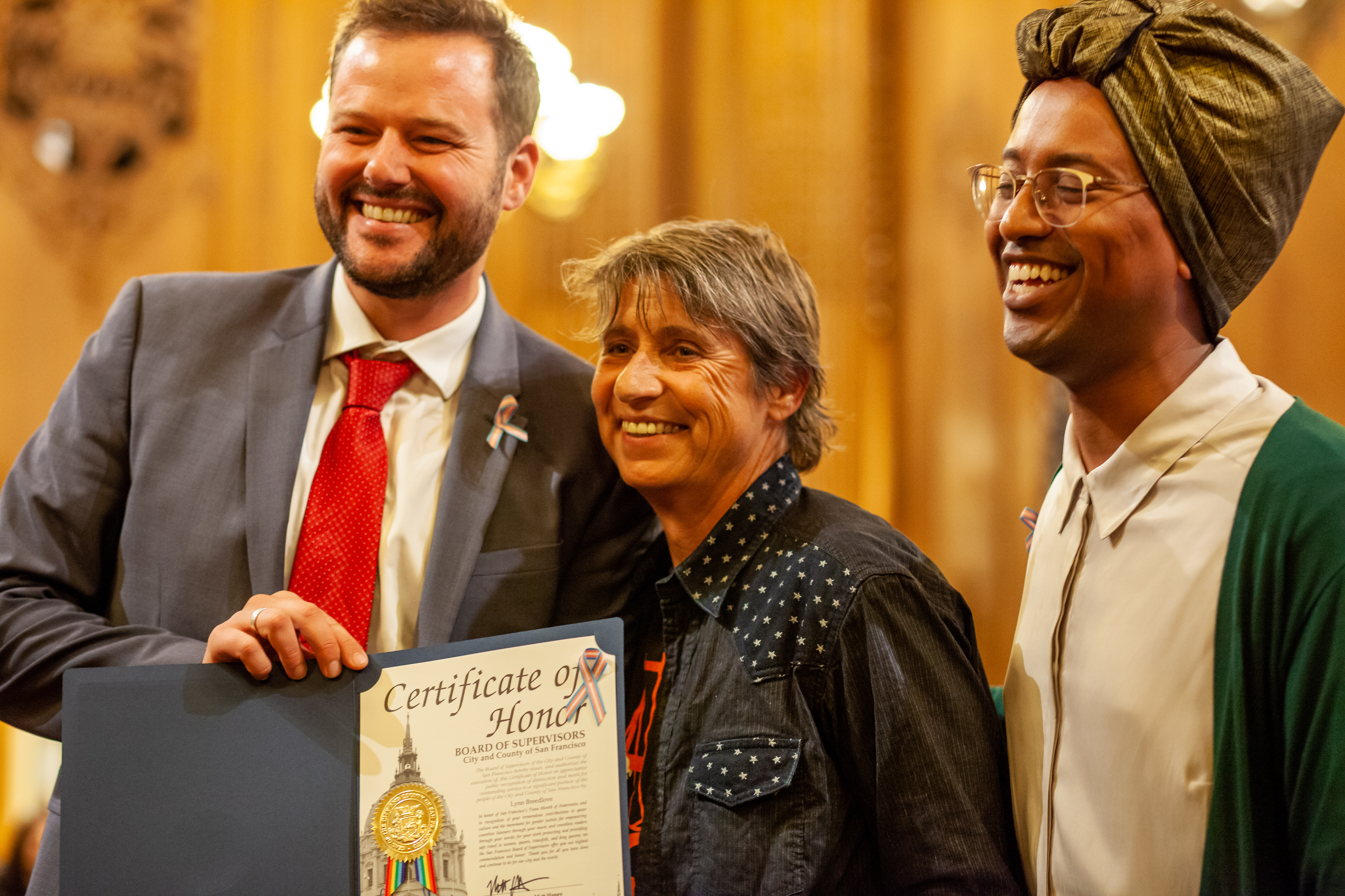 San Francisco Supervisor Matt Haney and his legislative aide Honey Mahogany present Lynn Breedlove with a certificate of honor at a Board of Supervisors meeting during Transgender Awareness Week.